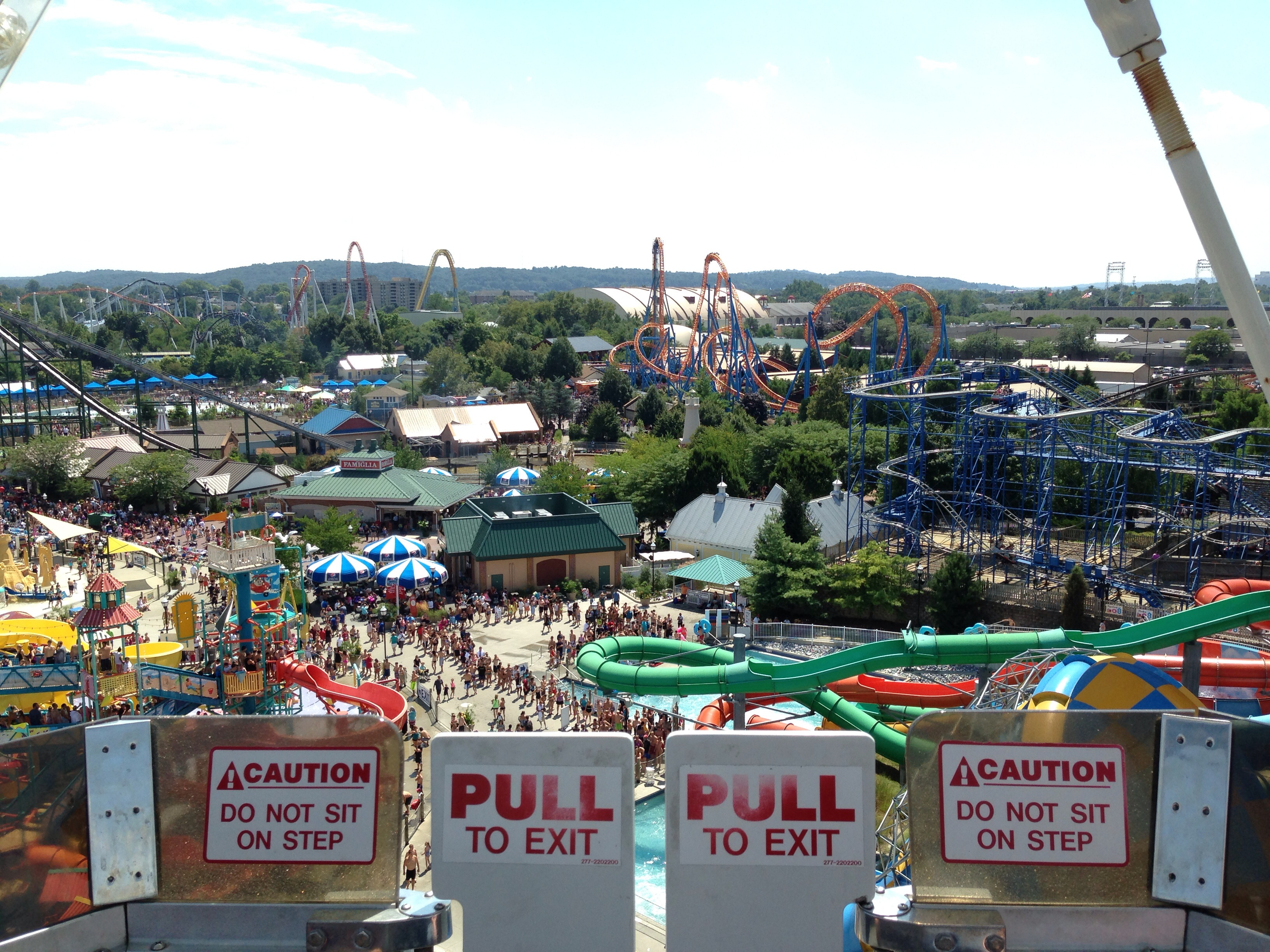 Hersheypark Ferris Wheel